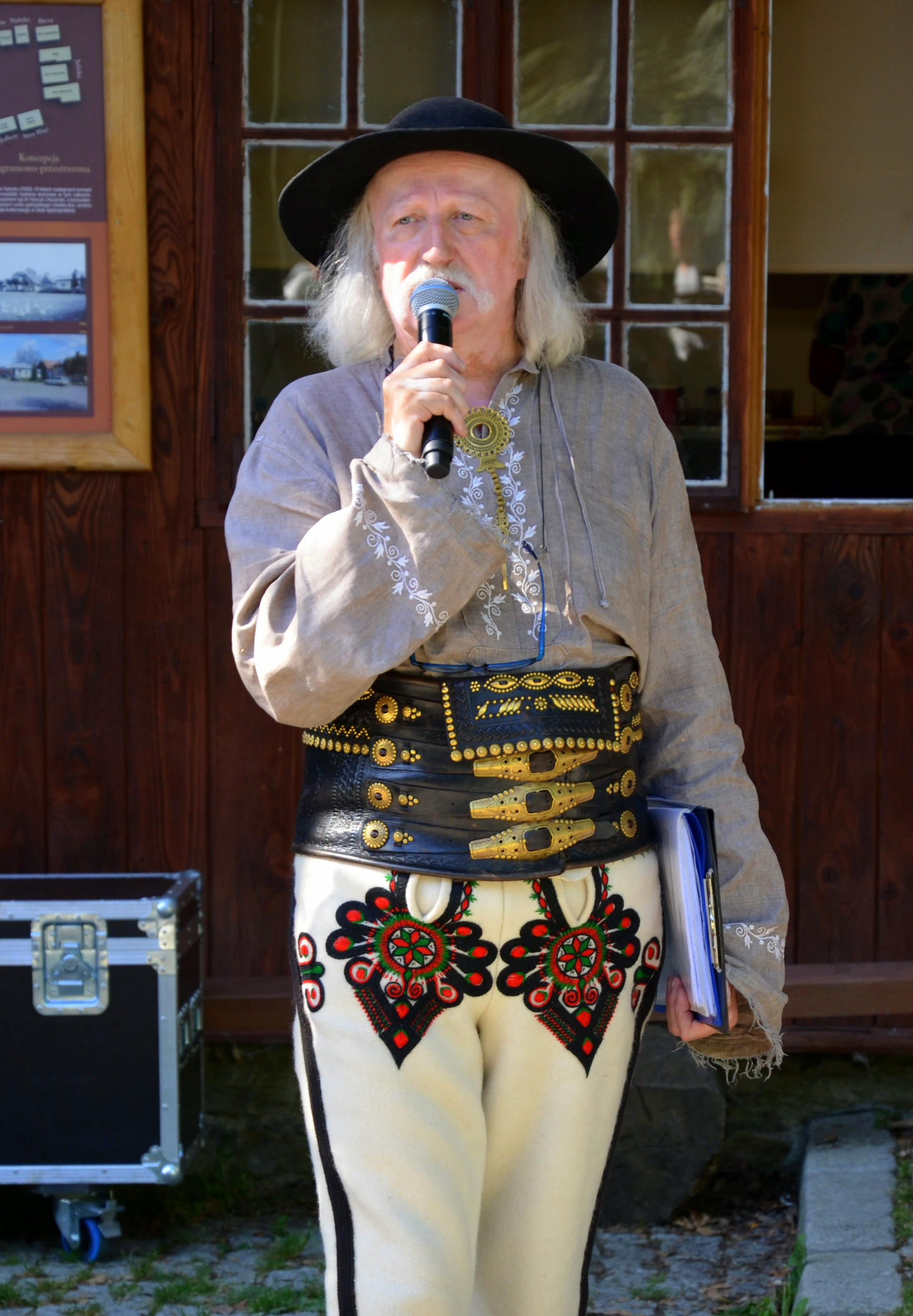 Stanisław Jaskułka